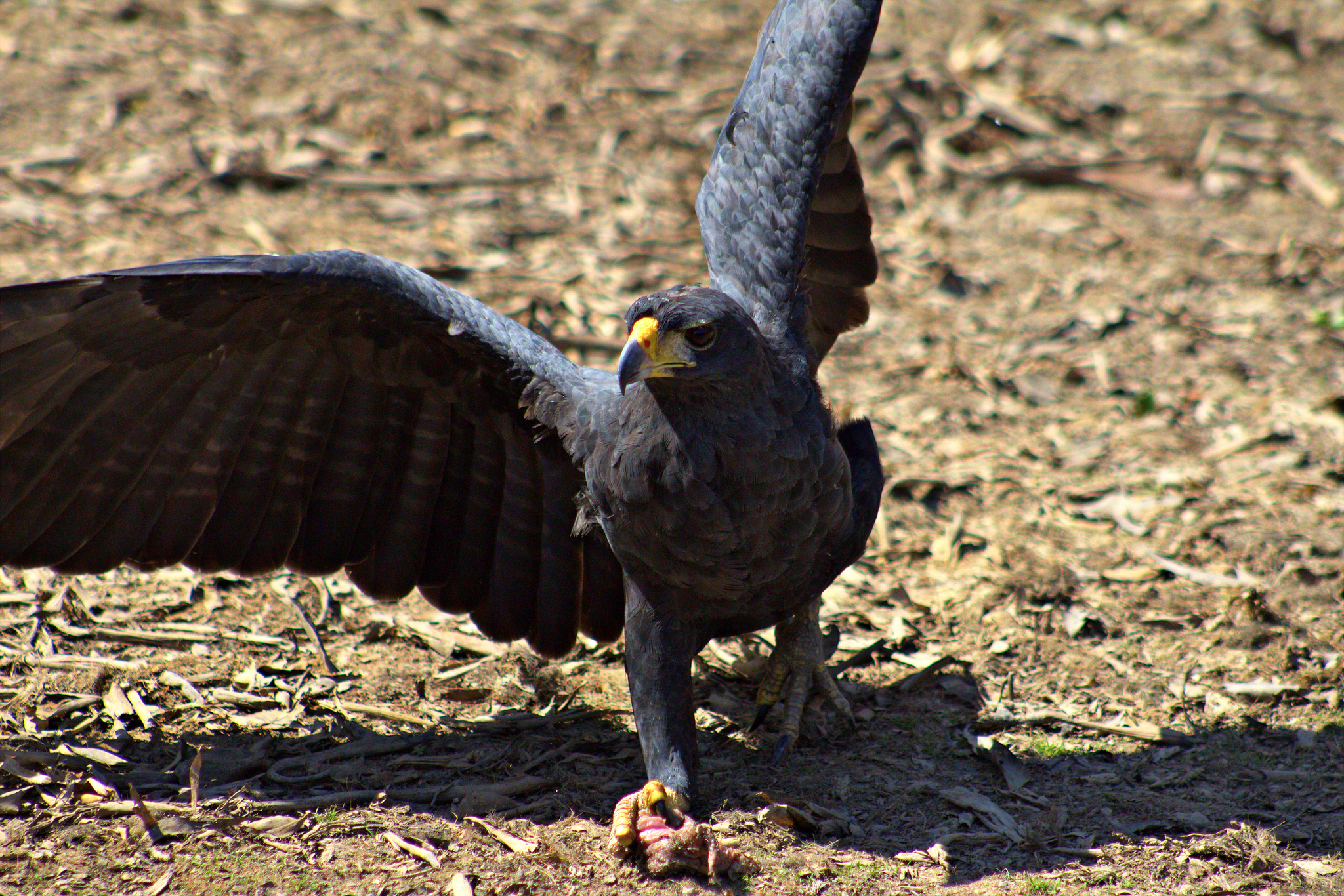 A Great Black Hawk at Hato El Cedral (ranch), Apure State, Venezuela.